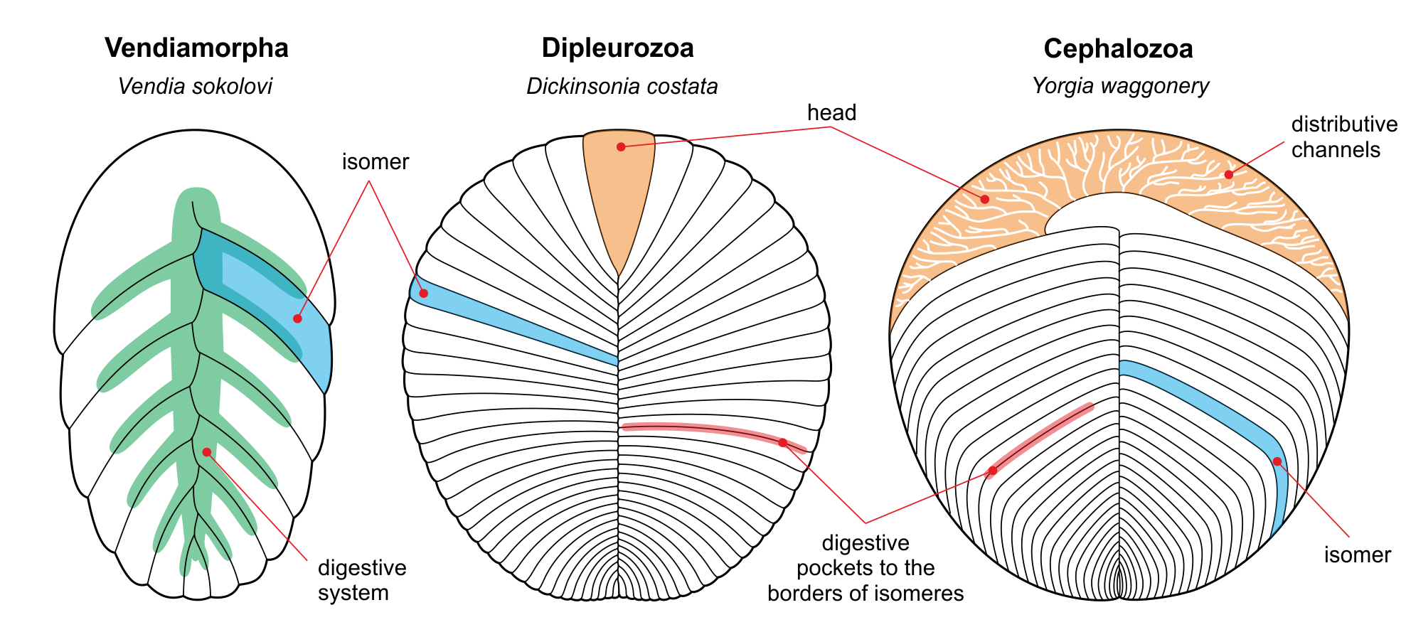 Construction of the classes Proarticulata on the example of the Vendia sokolovi, Dickinsonia costata and Yorgia waggoneri.